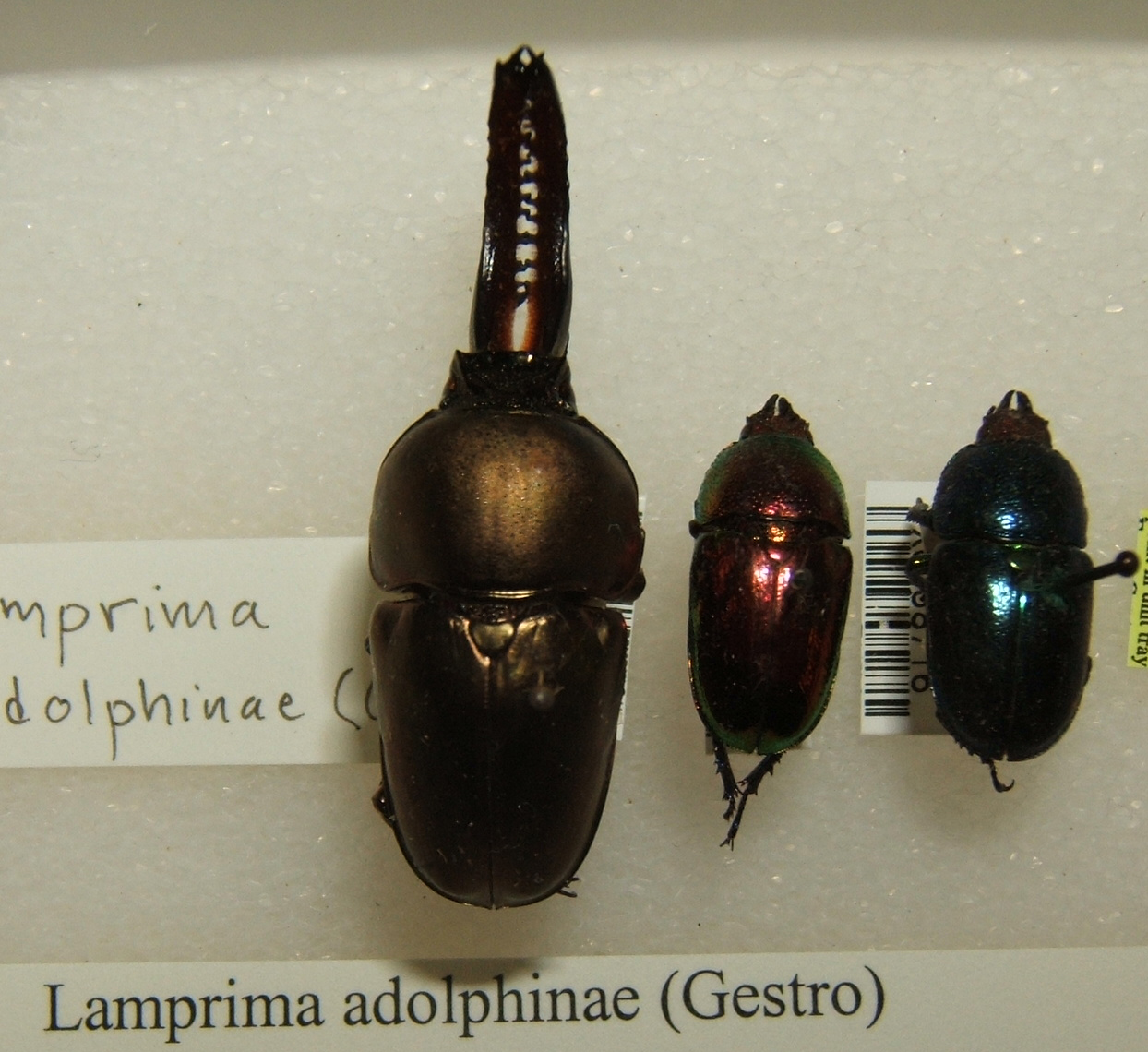 Lamprima adolphinae adult taken by Shawn Hanrahan at the Texas A&M University Insect Collection in College Station, Texas.